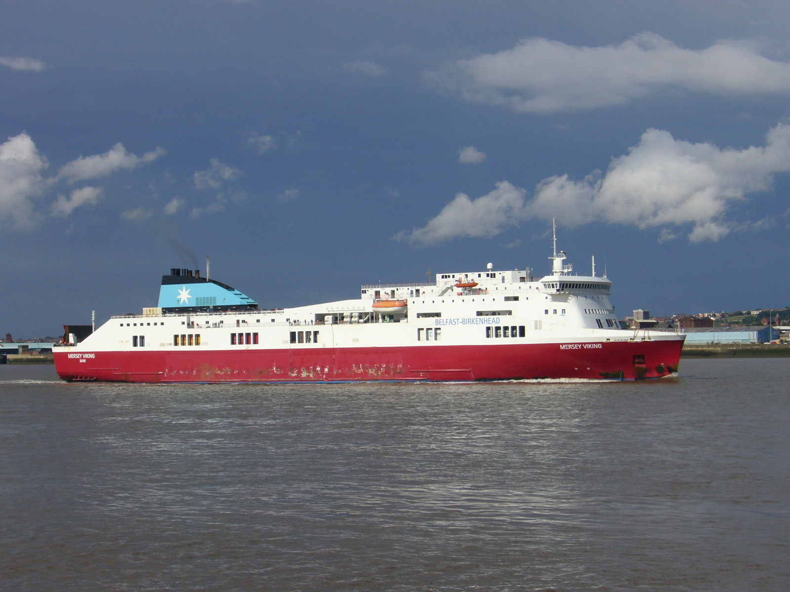 The Mersey Viking seen from grid reference SJ 325 909 in Seacombe, Wirral Peninsula. IMO Number: 9329851 MMSI Number: 235068243 Callsign: 2BPR6 Length: 186 m Beam: 26 m